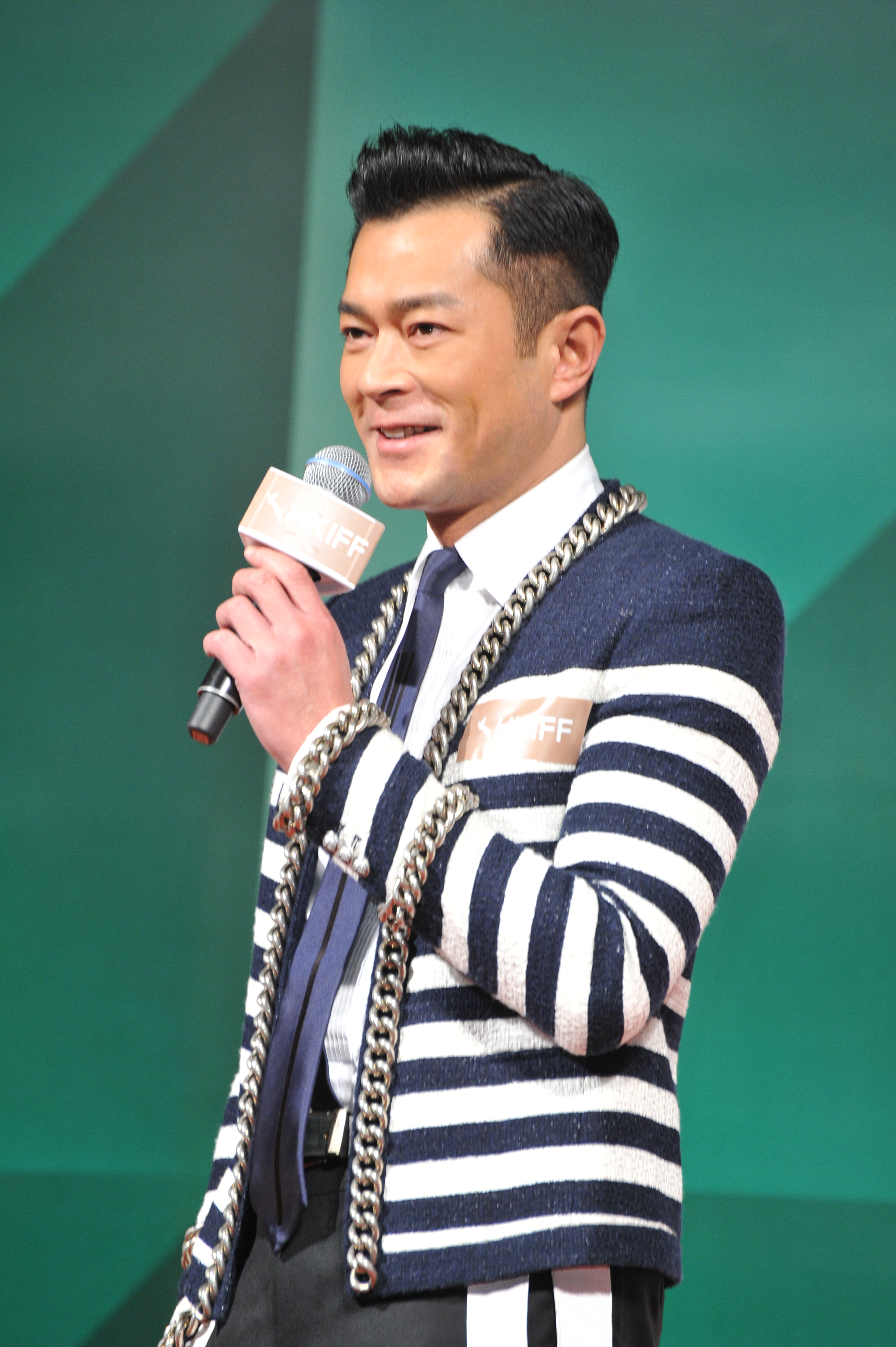 Louis Koo Tin-lok